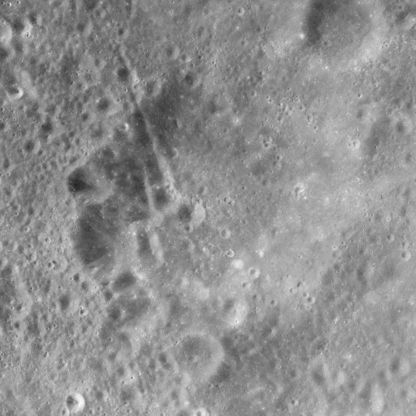 Morozov, on the far side of the moon. Sun angle 51 deg, camera altitude 124 km.